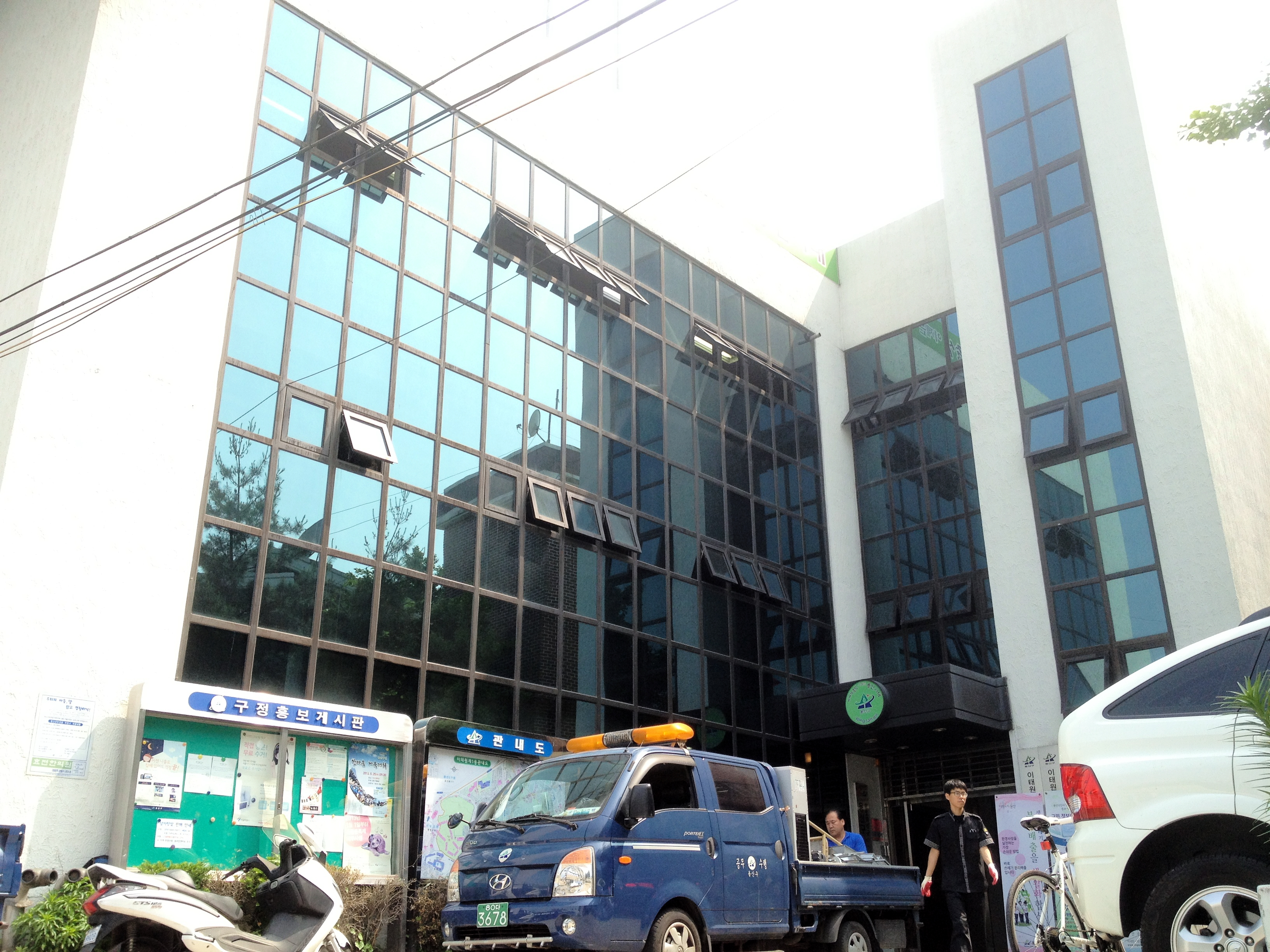 Itaewon 1-dong Comunity Service Center(Yongsan-gu)